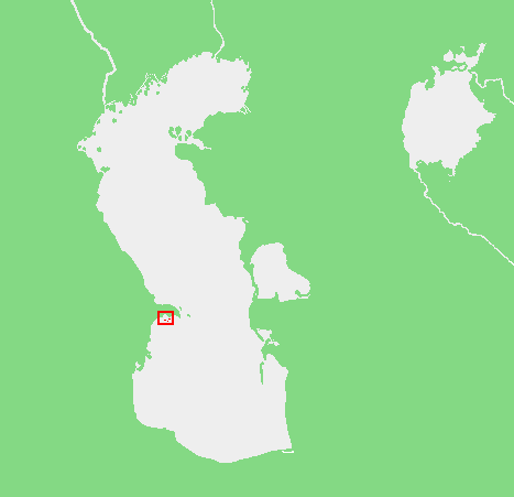 location map